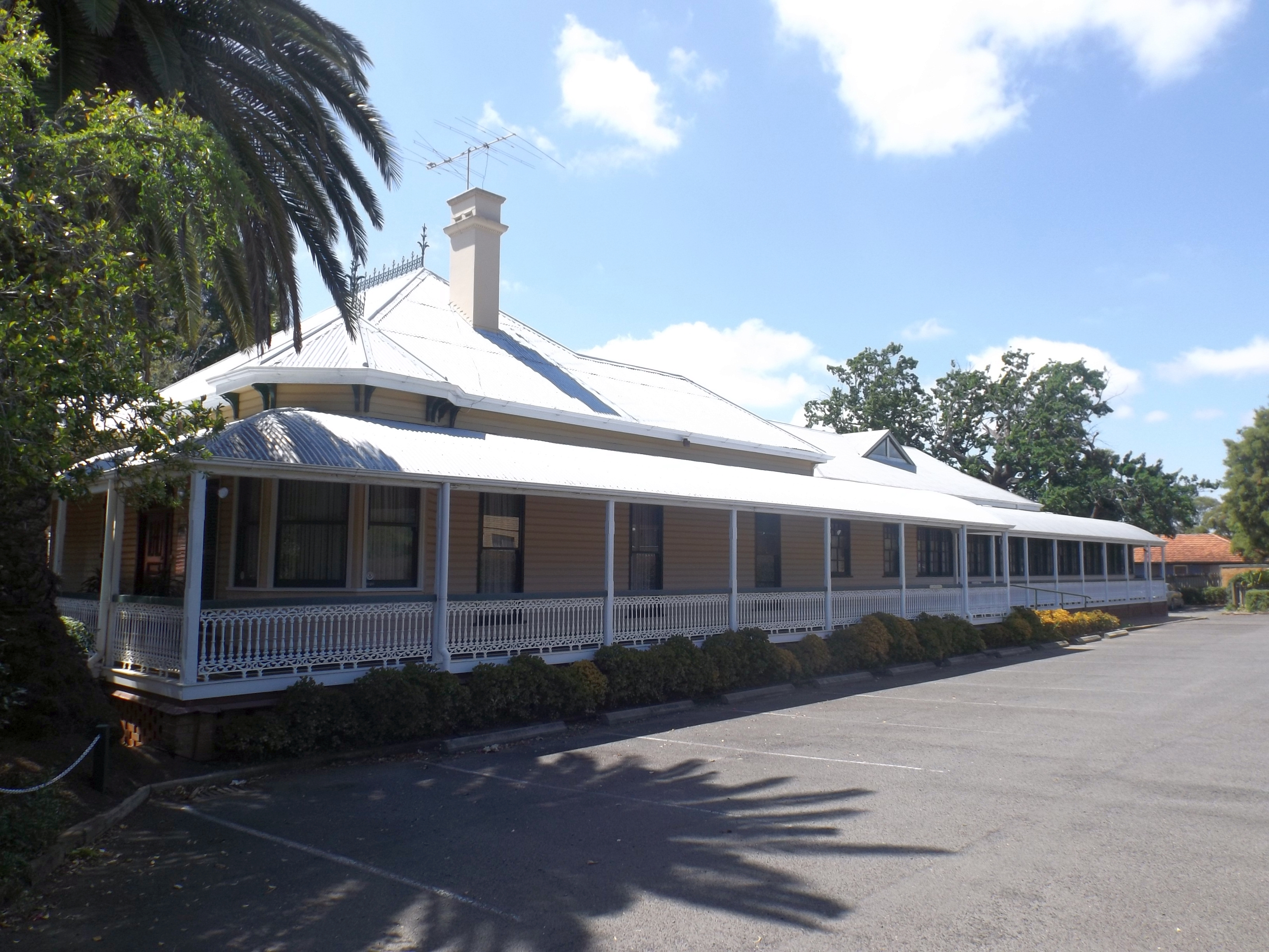 Photo of Kensington and car park along western side in Toowoomba City, Queensland, Australia. The building is currently occupied by a law firm.